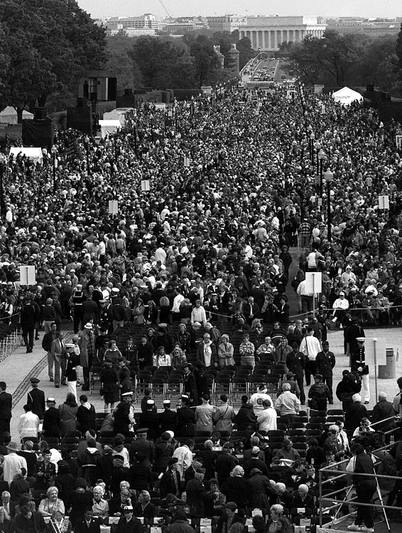 The crowd at the dedication ceremony for the Women in Military Service for America Memorial in front of Arlington National Cemetery in Arlington County, Virginia, in the United States, on October 17, 1997. Memorial Drive, which leads from Arlington Memorial Bridge to the gateway to Arlington National Cemetery, was closed for the event, which drew more than 30,000 servicewomen, their families, and dignitaries.